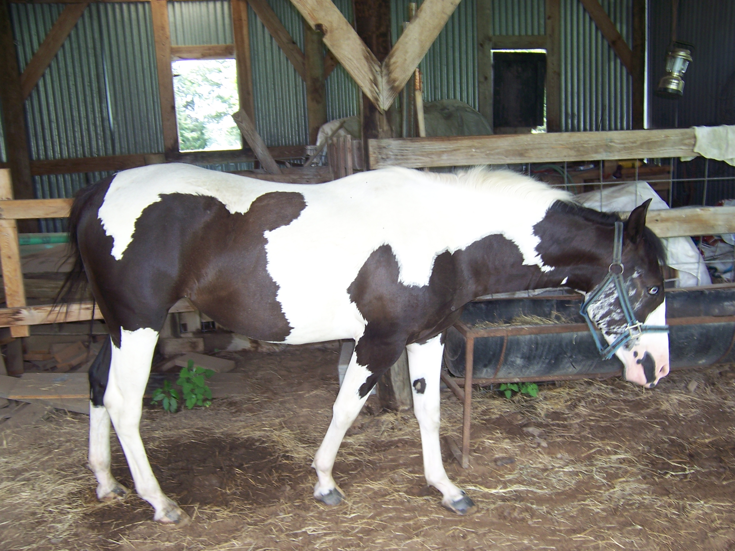 American Indian Horse Registry, Tobiano Paint. Mare Born 06/02/2005